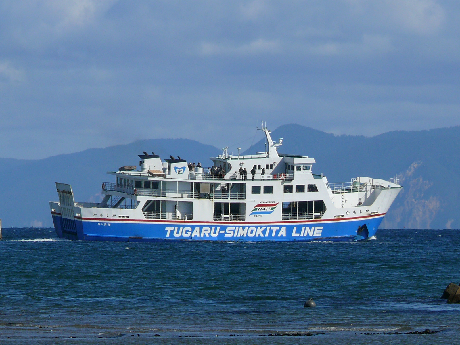 Mutsuwan Ferry Kamosika(Japan). IMO number: Callsign